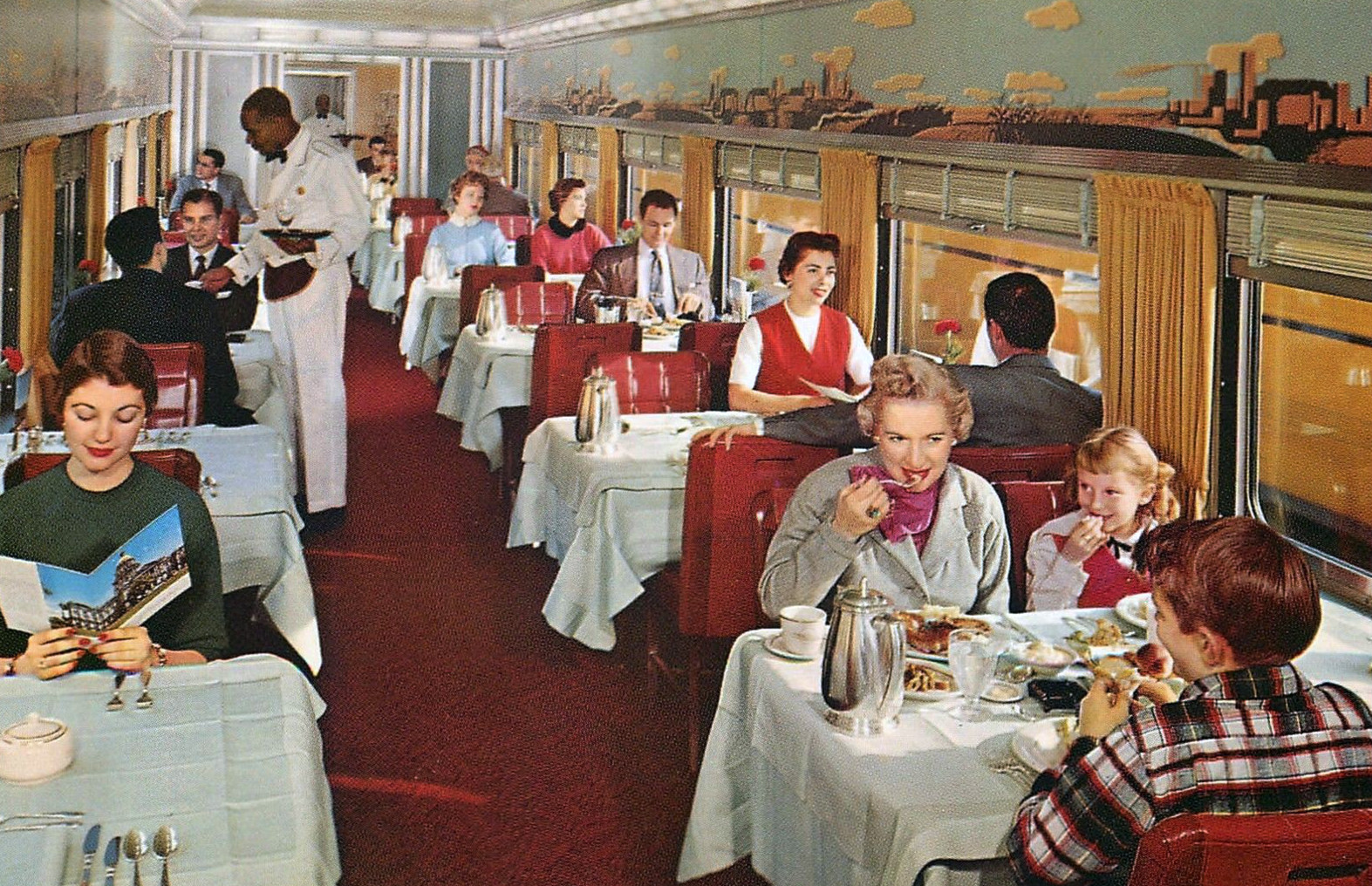 Photo postcard photo of the dining car on Union Pacific Railroad's City of Denver.